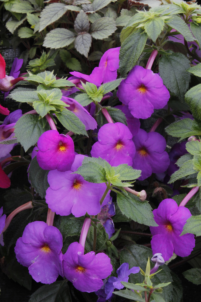 Achimenes skinneri, a species of rhizomatous, herbaceous, tender perennial plant